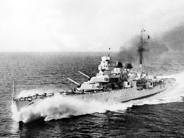 Italian cruiser Duca degli Abruzzi (1938)